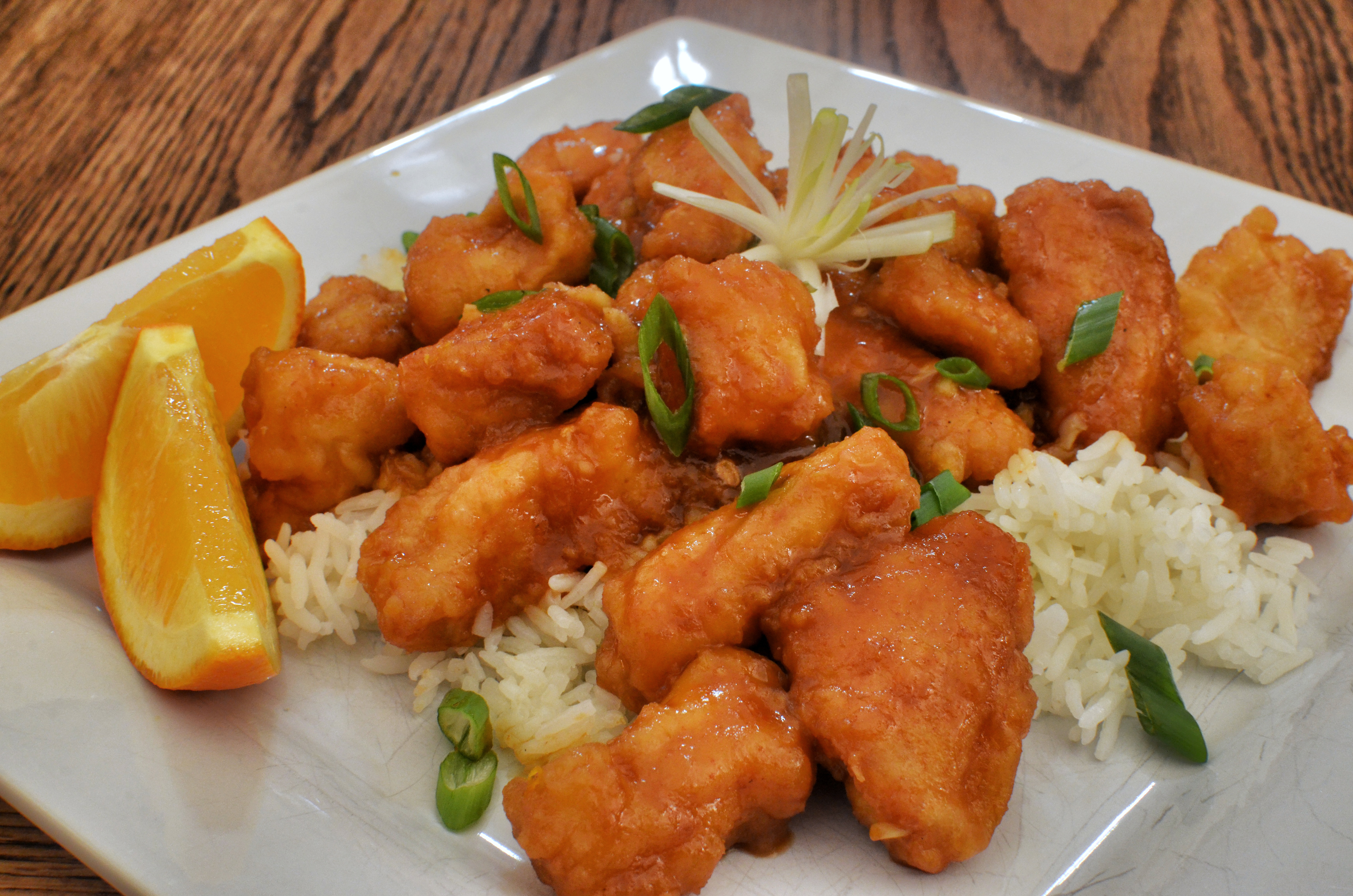 Mmm... orange chicken